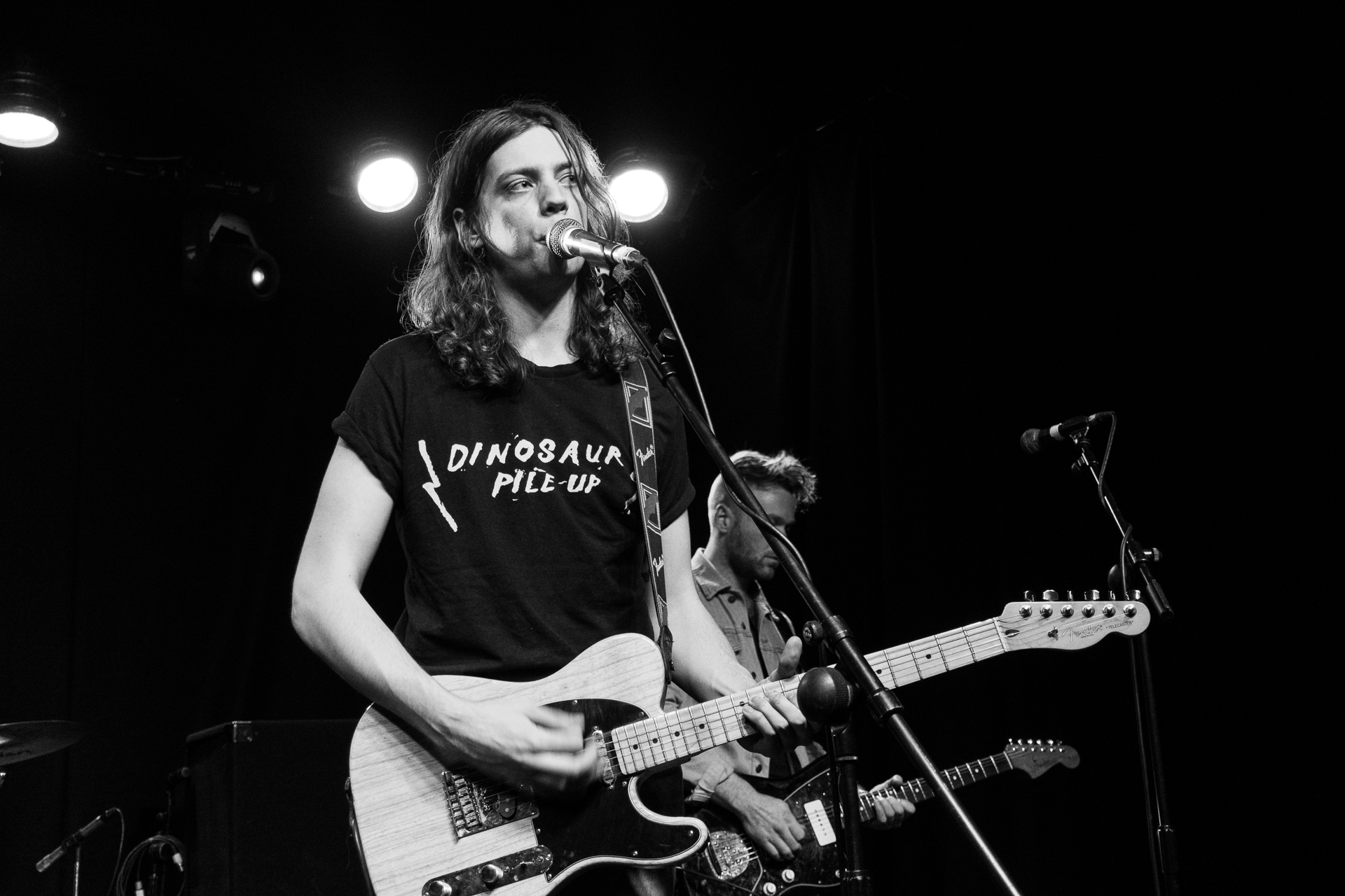 VANT live at Boston Music Rooms